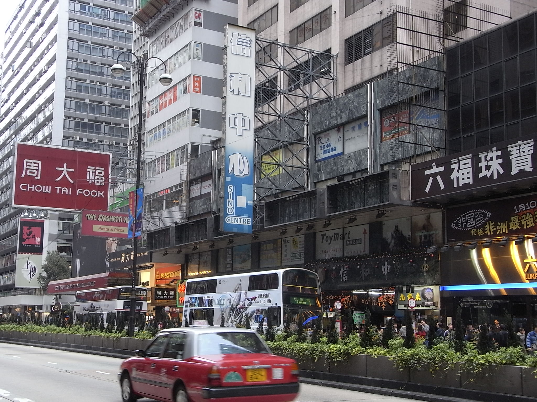 旺角 信和中心